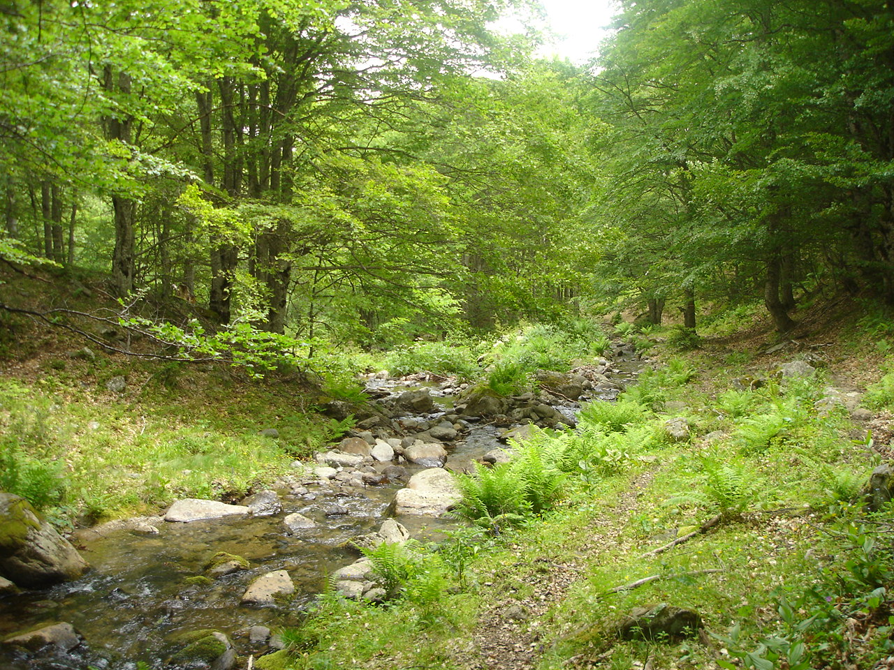 Salakova River, on Mokra mountain, Macedonia